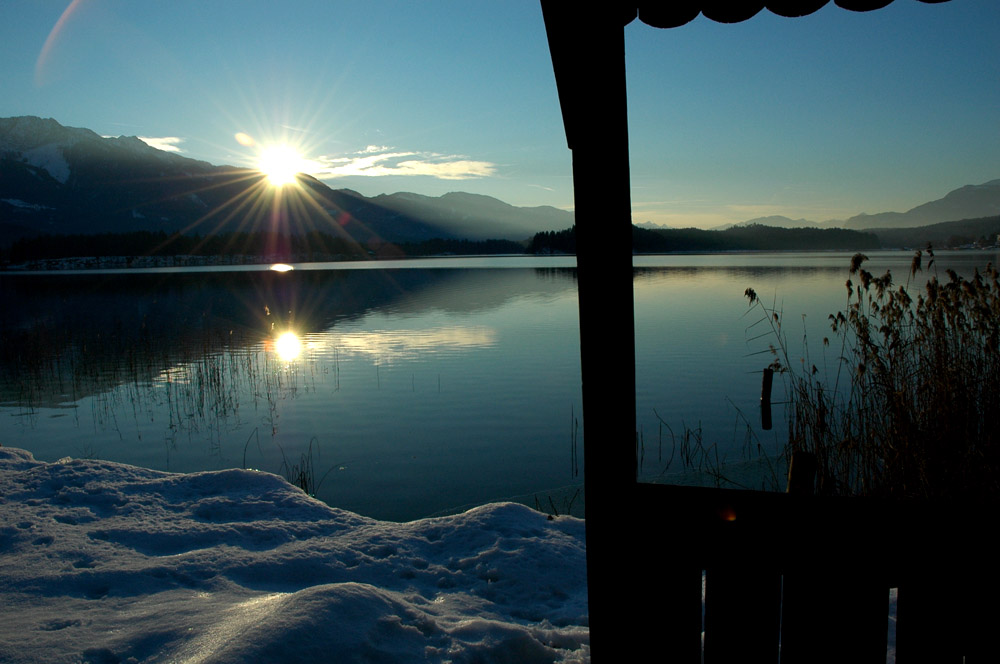 View across the northern basin of Lake Faak.